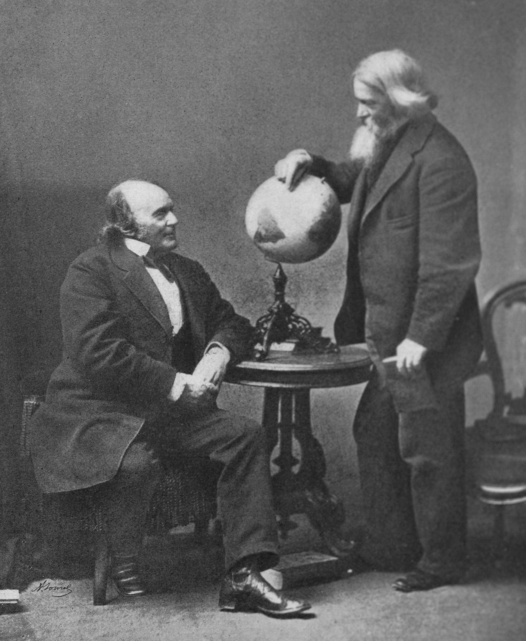 Louis Aggasiz (seated) with Benjamin Peirce